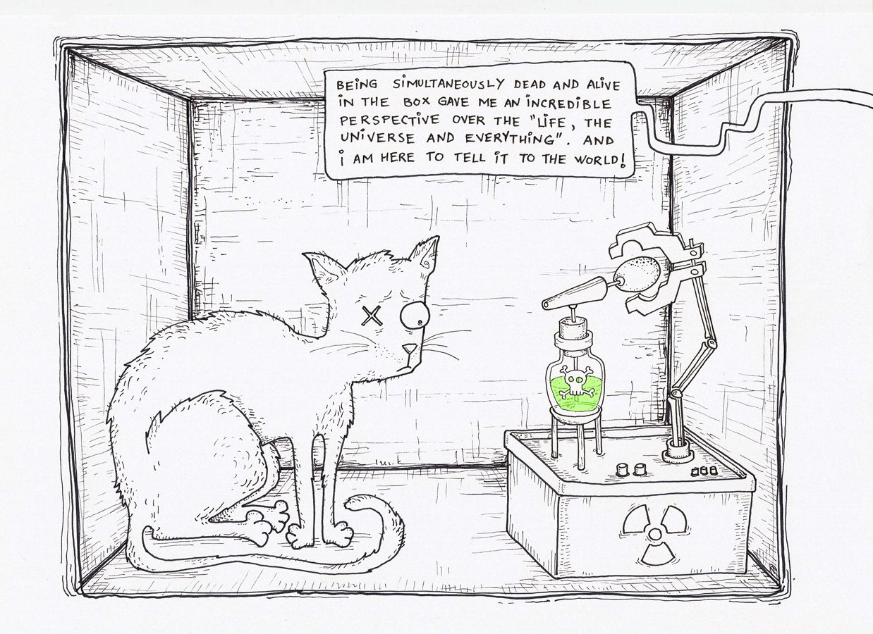 Schrödinger's cat in the box, having its near-death experience.